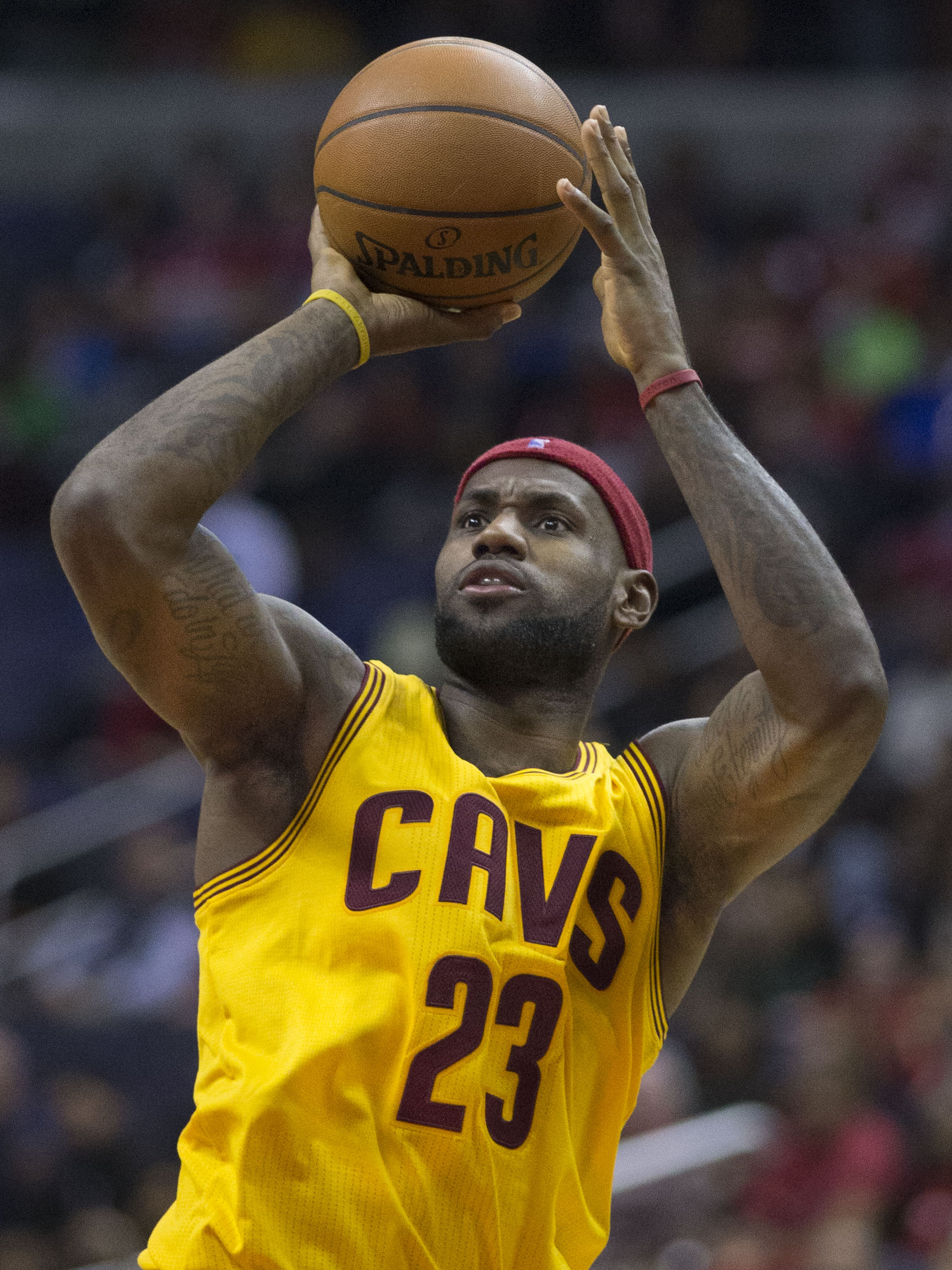 LeBron James of the Cleveland Cavaliers in a game against the Washington Wizards at Verizon Center on November 21, 2014 in Washington, DC.